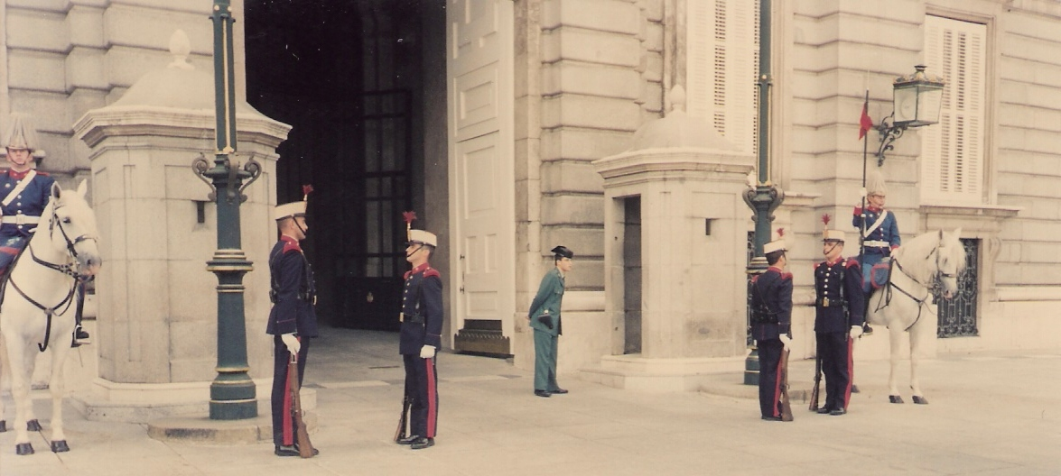 change of guards, royal palace, madrid